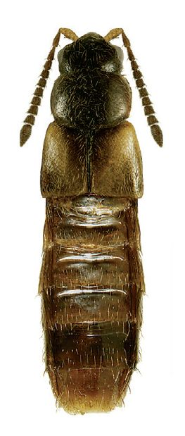 Atheta aemula